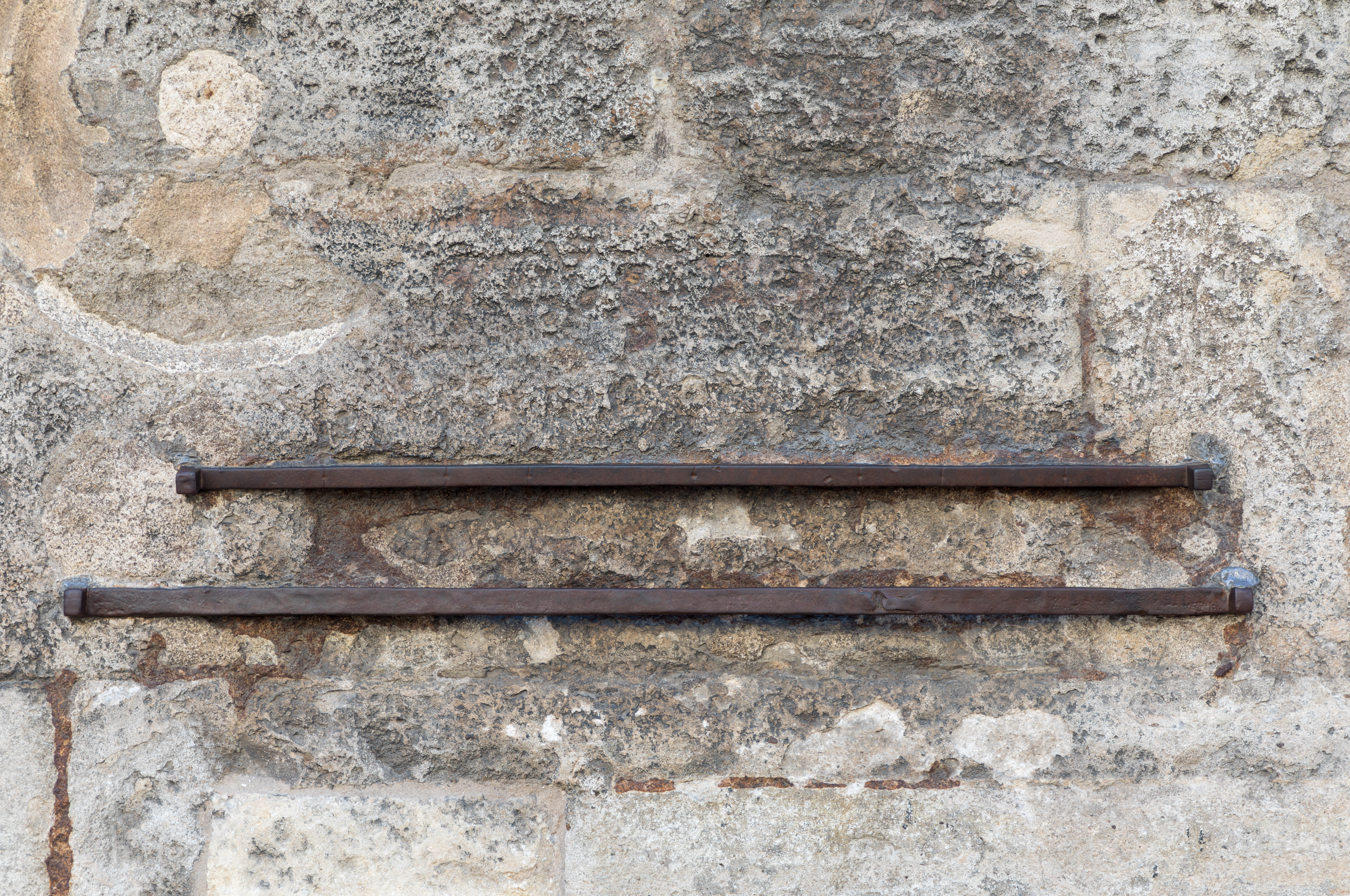 Ell at the St. Stephen's Cathedral, Vienna, Austria